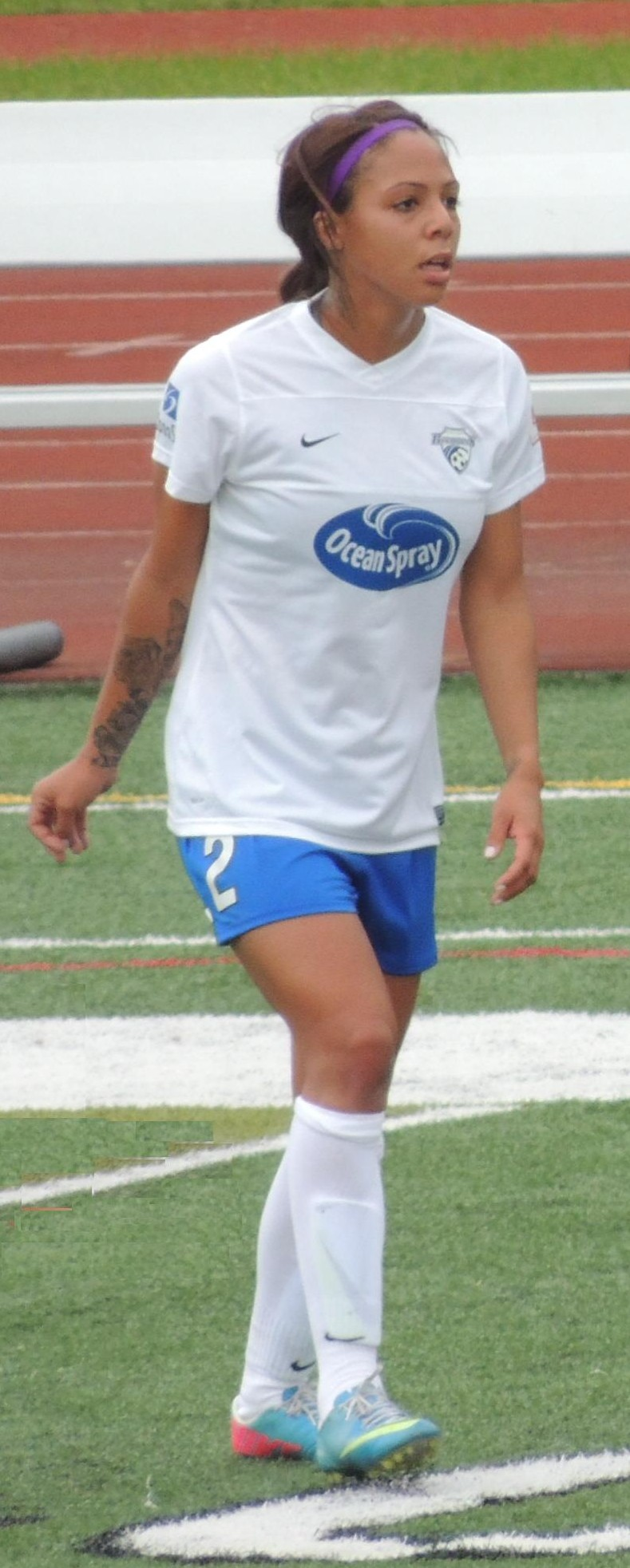 Sydney Leroux, soccer player; 2013-06-09 Chicago Red Stars vs Boston Breakers